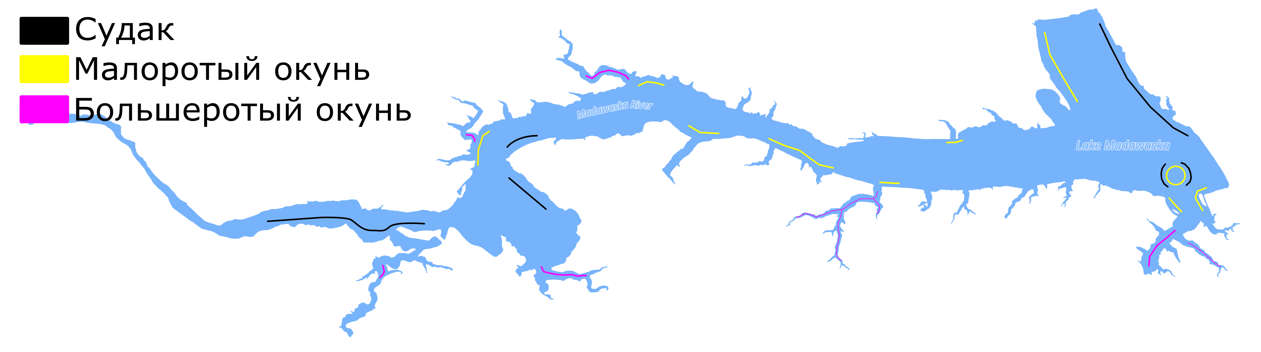 A map of the approximate habitat of the fish. Modifications made: Added fish habitats.